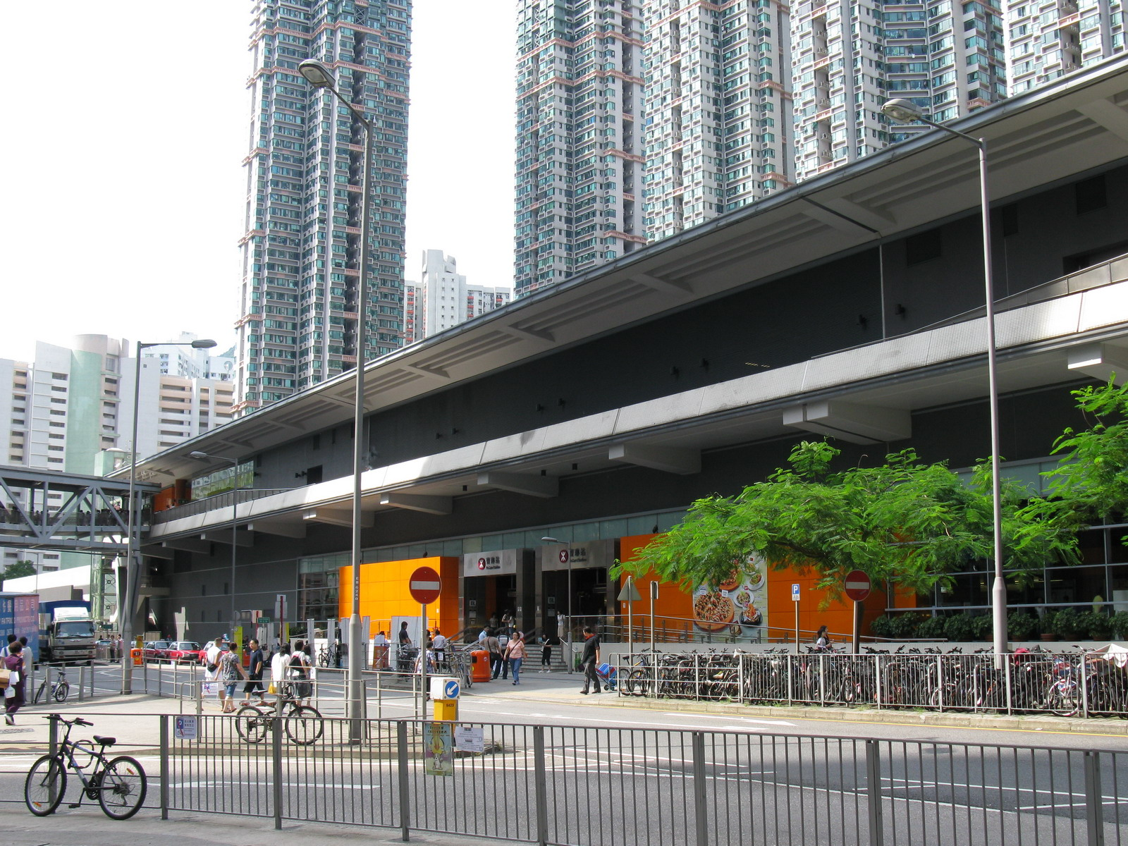 Po Lam Station